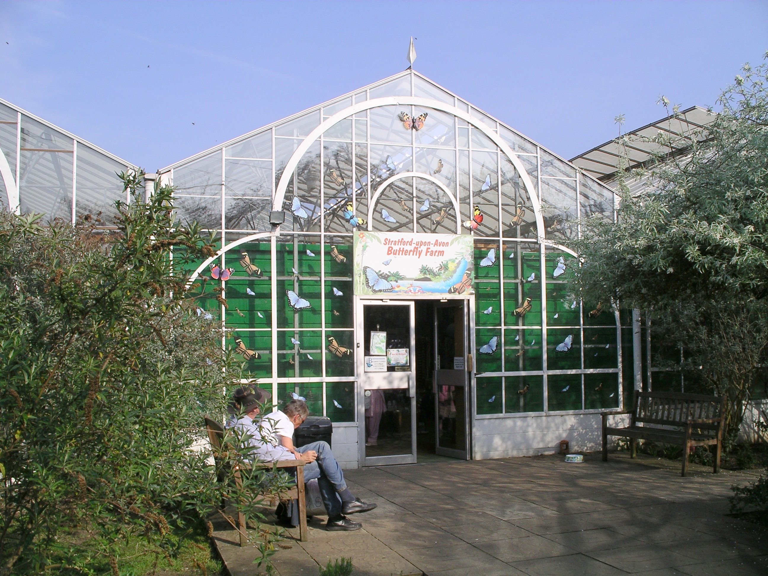 Photo of the entrance to the Stratford Butterfly Farm, Stratford-upon-Avon, Warwickshire, England.